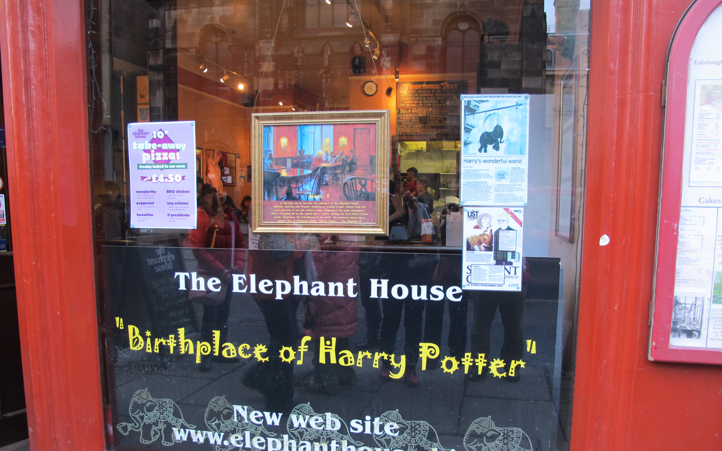 The Elephant House